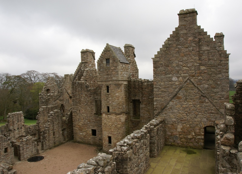 Tolquhon Castle, Aberdeenshire, Scotland - inner court with main house in south wing; in front: gallery in west wing